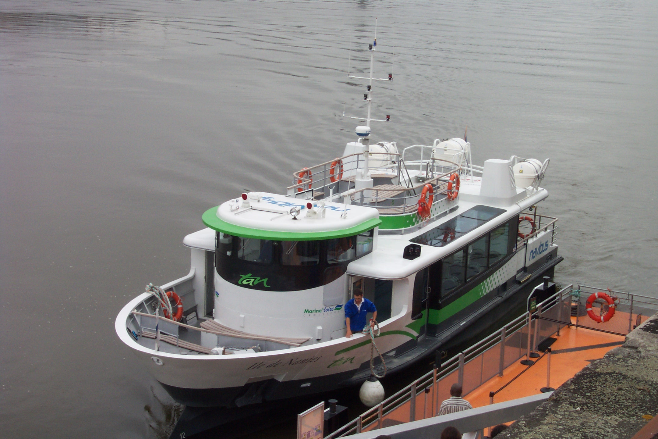 The Navibus Isle de Nantes approaching the jetty at the Gare Maritime on the River Loire in Nantes, France. This is one of two boats which provide service on the Navibus Loire service. For more information, see the Wikipedia article Navibus.